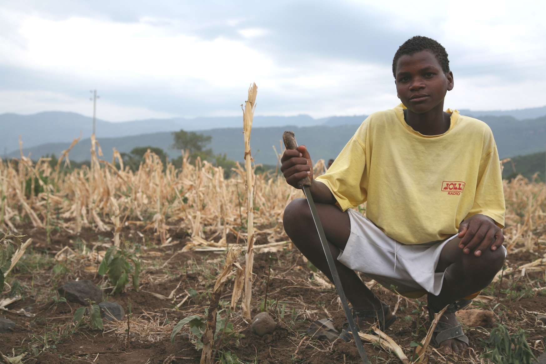 The eastern Horn of Africa is currently experiencing its worst drought since the 1950s. Crops have failed, livestock have died, and prices in local markets are too high for most people to buy what is needed to feed their families. While this drought is regional, the needs are localized and have significantly different root causes and solutions. (Kimberly Flowers/USAID)